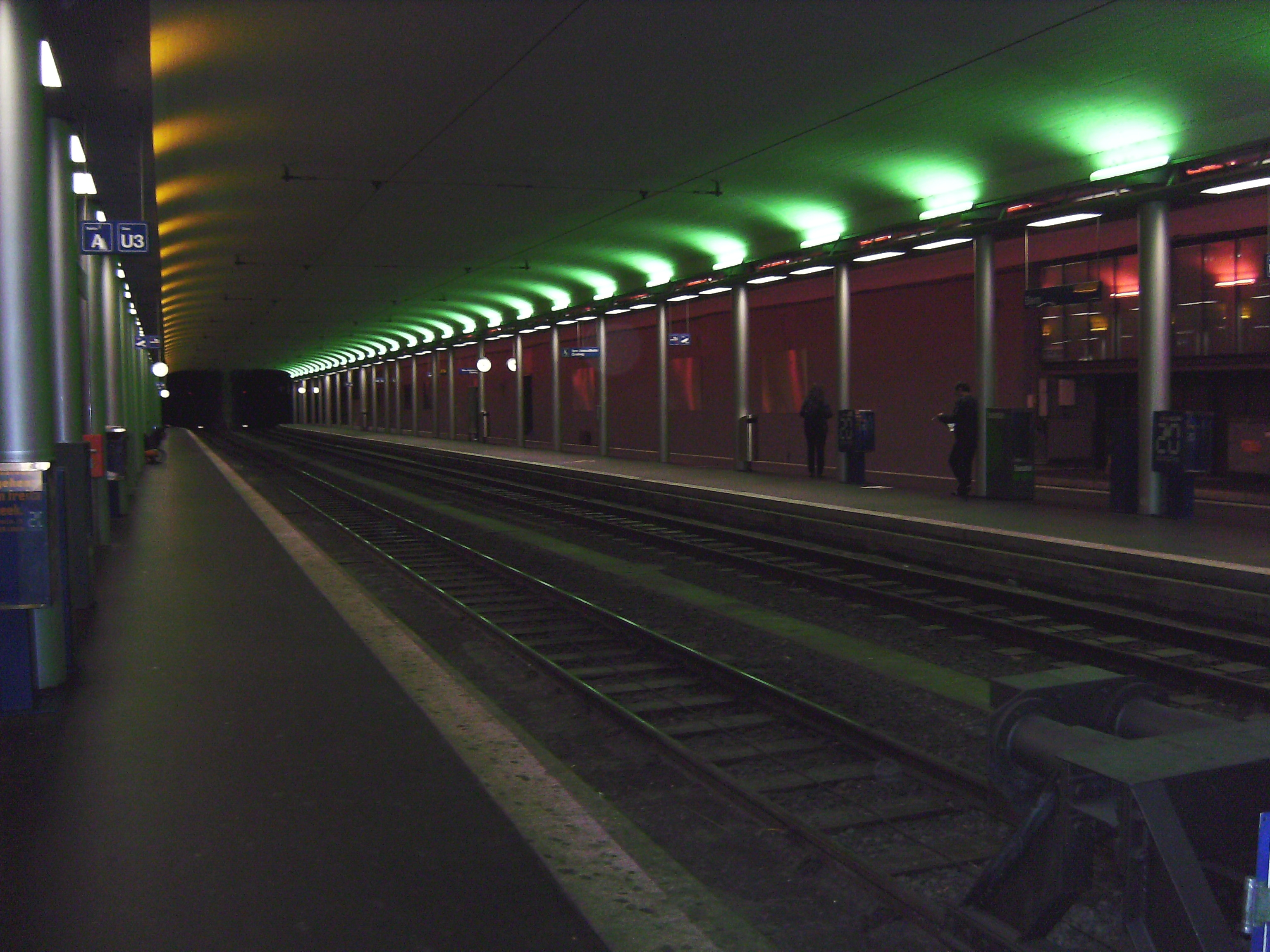 Underground terminal of Bern main train station. This terminal is used by the narrow gauge network of Regionalverkehr Bern-Solothurn.